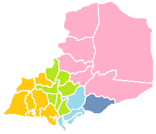 Bulacan subdivided into cities and municipalities.